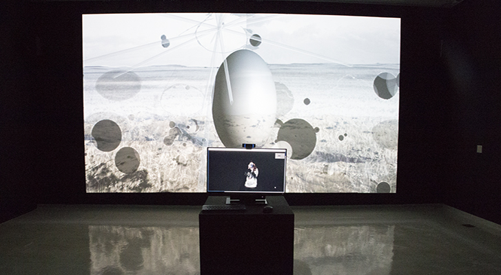 Observed Realities installation in the National Museum of BBAA in Taiwan (2019)